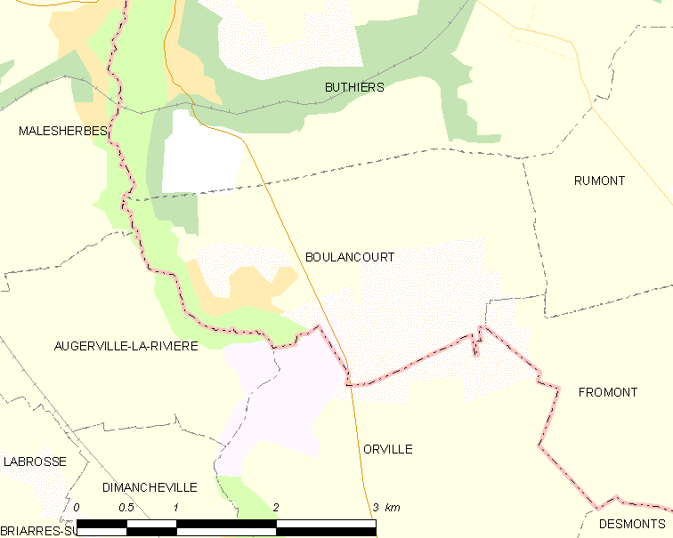 Map of French municipality Boulancourt